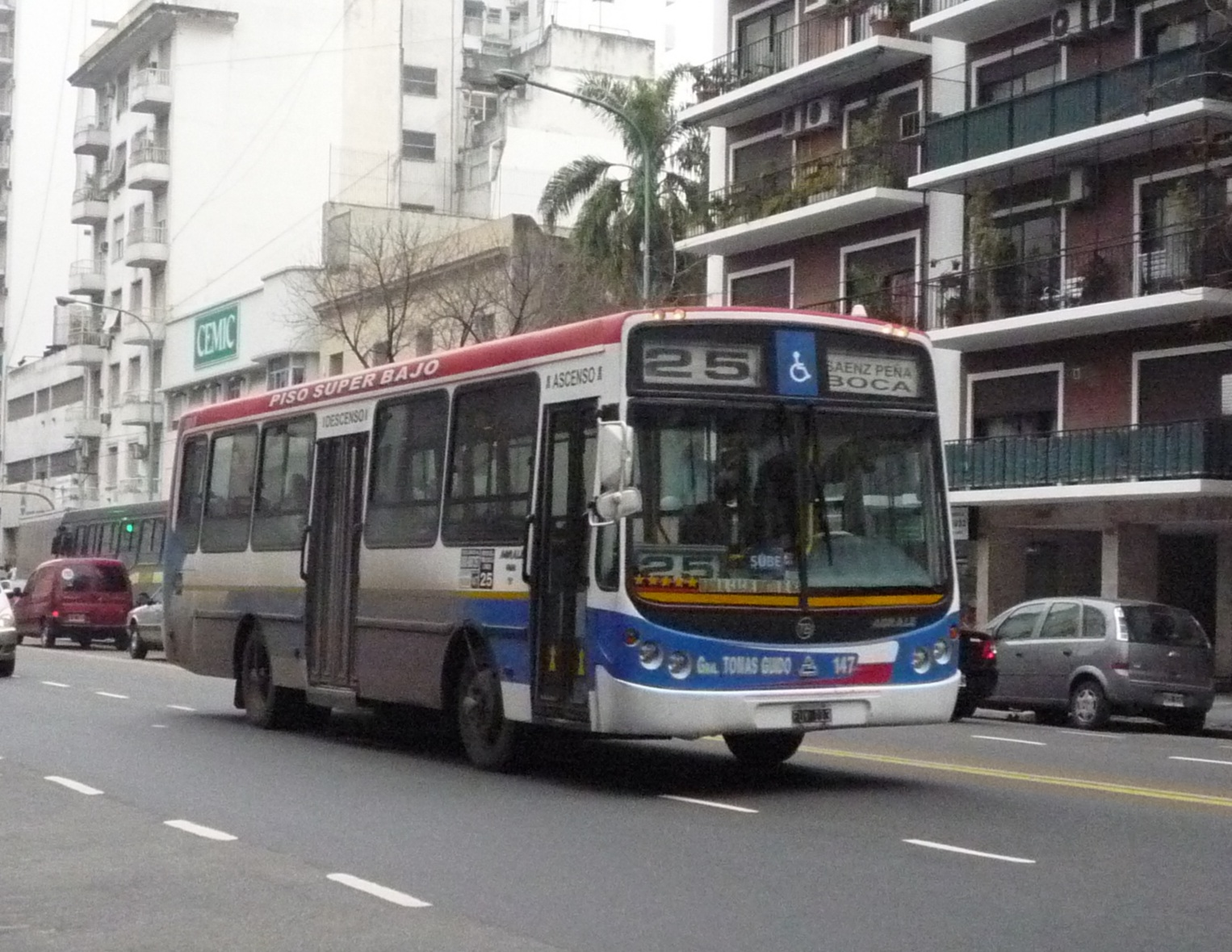 6000 block of Rivadavia Avenue, in the Caballito ward of Buenos Aires.